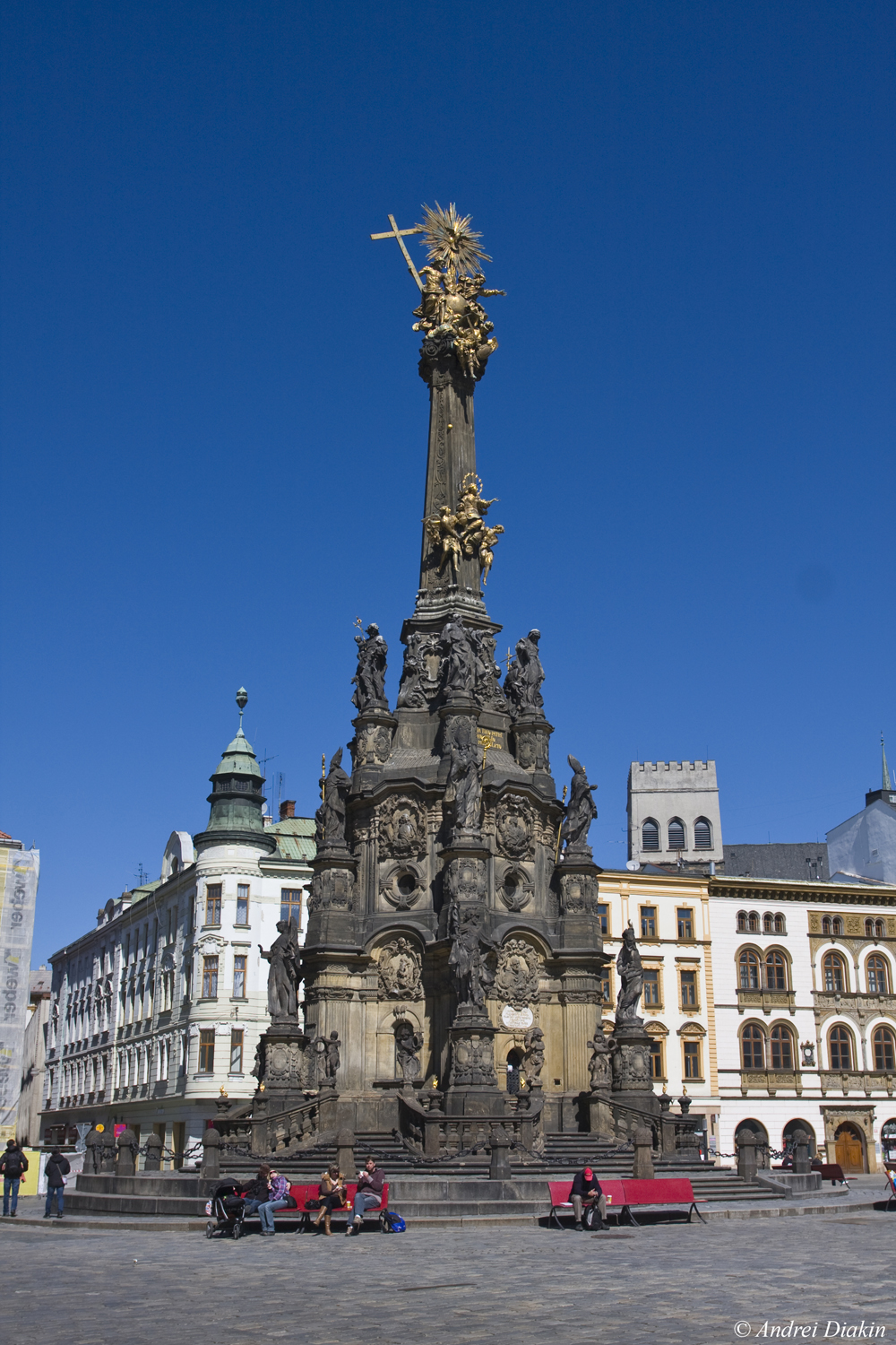 Sloup Nejsvětější Trojice v Olomouci (Holy Trinity Column in Olomouc)